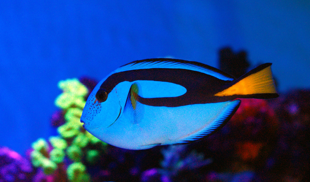 Paracanthurus Hepatus in a home aquarium